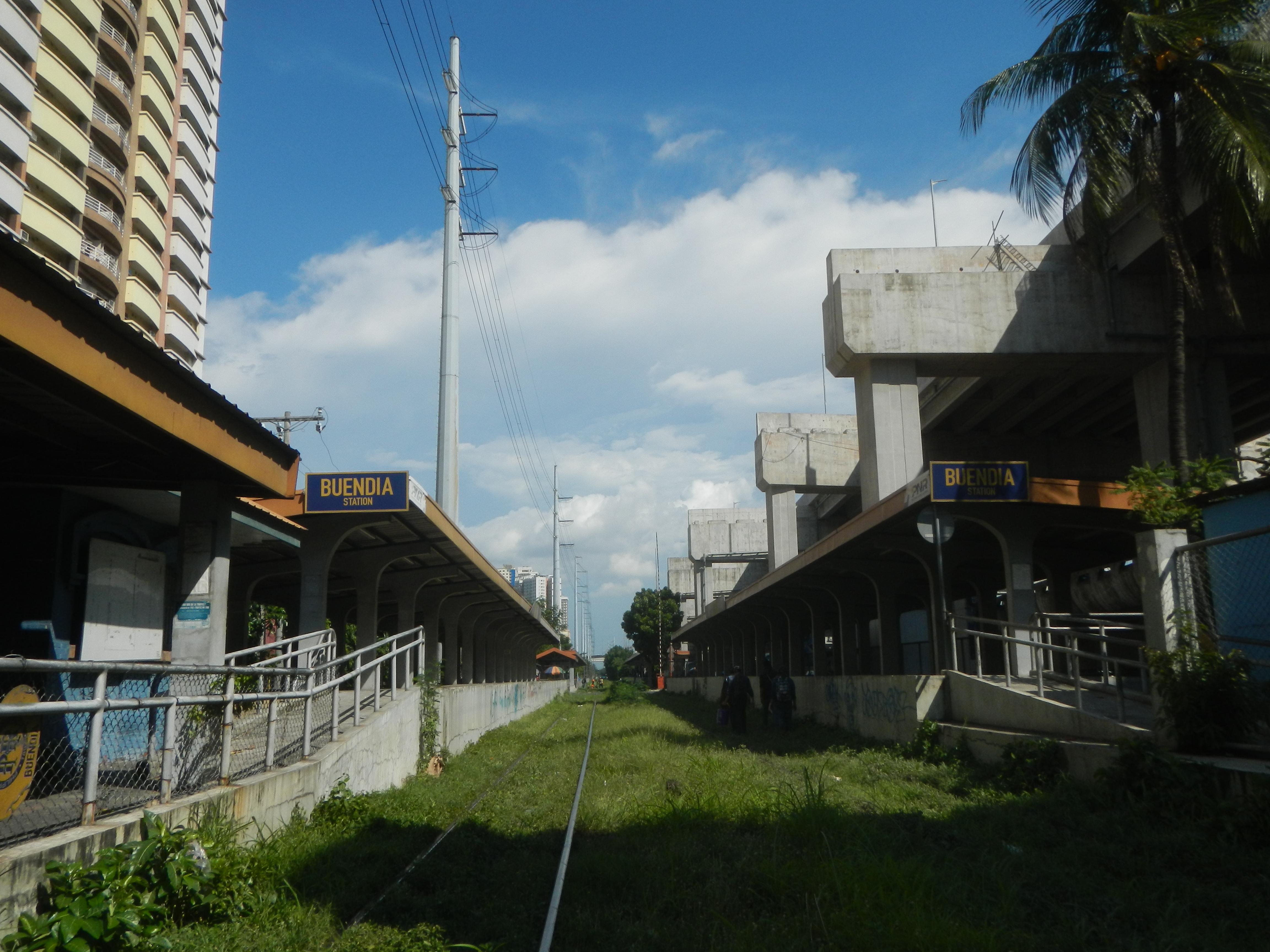 Makati Executive Towers III & IV Cityland Condominium 8 Dela Rosa 14°33'30"N 121°0'44"E Dela Rosa railway station Gil Puyat Avenue (formerly Buendia Avenue) Gil Puyat Avenue (San Antonio and Pio del Pilar) KM 12.400 Cityland Makati Executive Tower IV 14°33'27"N 121°0'29"E Cityland Square Buendia (PNR station) Medina Street corner Gil Puyat Avenue, Makati Executive Towers Cityland Development Corporation in List of barangays of Metro Manila, Legislative districts of Makati, Barangays Pio del Pilar 14°33'13"N 121°0'37"E San Antonio 14°33'45"N 121°0'35"E Makati City (Note: Judge Florentino Floro, the owner, to repeat, Donor Florentino Floro of all these photos hereby donate gratuitously, freely and unconditionally all these photos to and for Wikimedia Commons, exclusively, for public use of the public domain, and again without any condition whatsoever).